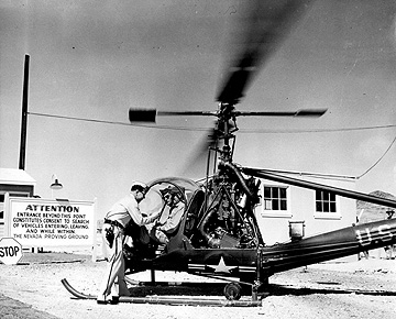 In 1953 a security guard checks credentials of the helicopter crew before clearing them to enter the closed air space of the Nevada Test Site.